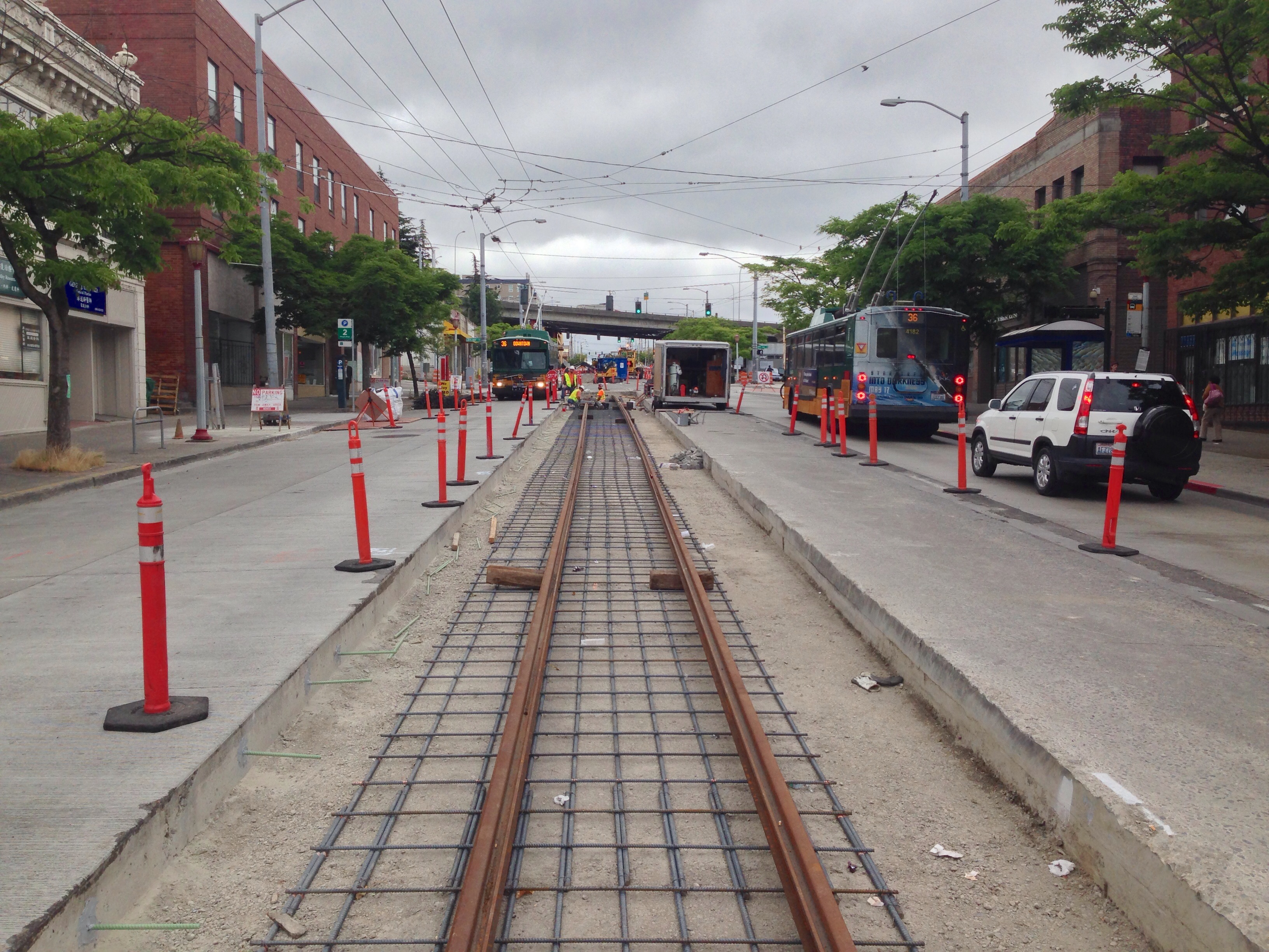 Inbound First Hill Streetcar track construction: Jackson St. & Maynard Ave (looking east). In the background, two Gillig trolleybuses are passing the construction, one eastbound and one westbound.